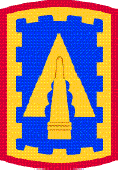 US Army insignia